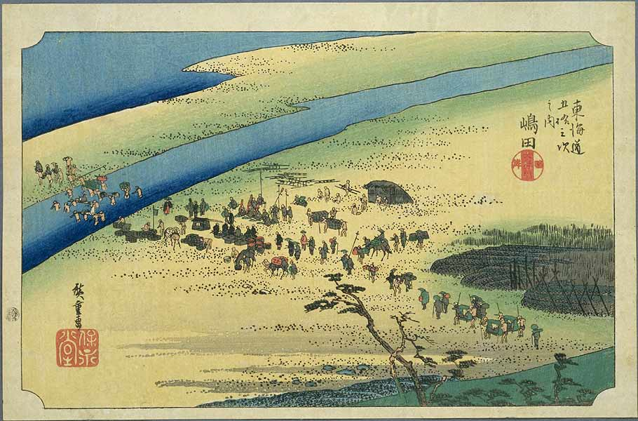 Shimada on the Tokaido, ukiyo-e prints by Hiroshige